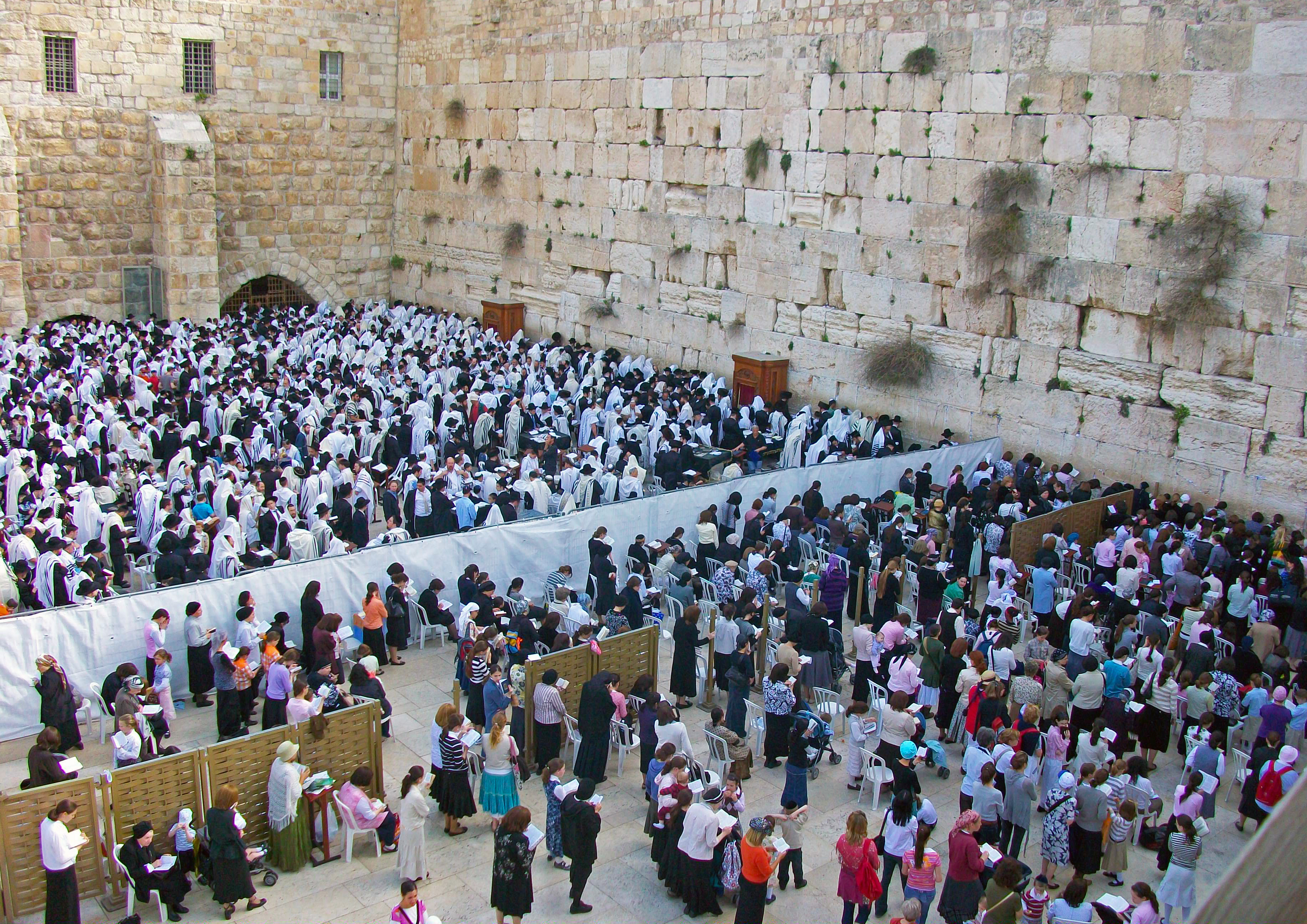 The separate men's and women's prayer areas at the Western Wall seen from the walkway to the Dome of the Rock to the south, seen during heavy use of the wall during Passover.